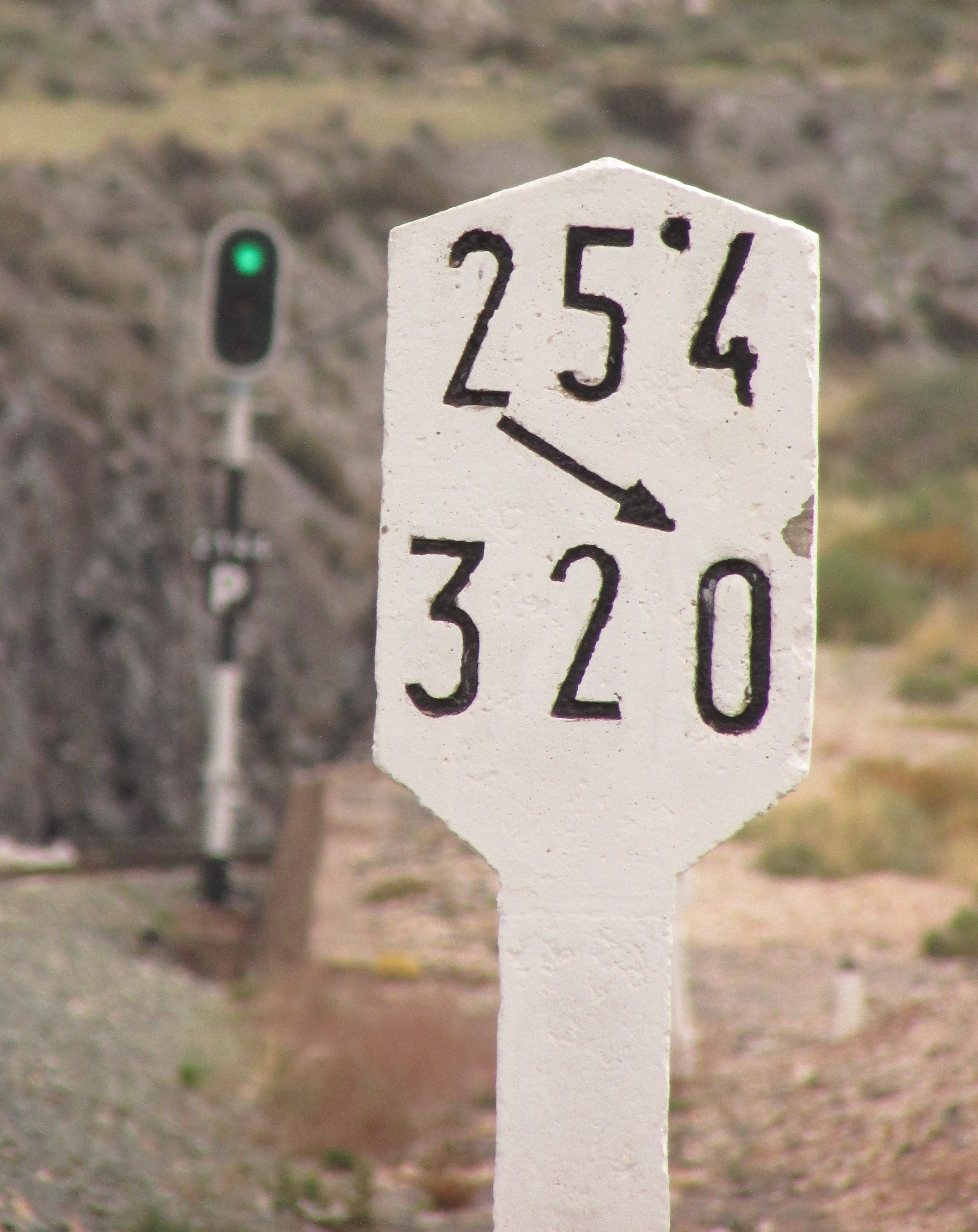 Slope sign in "Las Manchegas" train station (Almería)